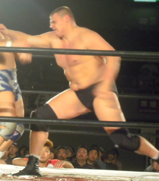 Professional wrestler, Big Van Walter from Austria. May 5 2012, BJW Yokohama Cultural Gymnasium.